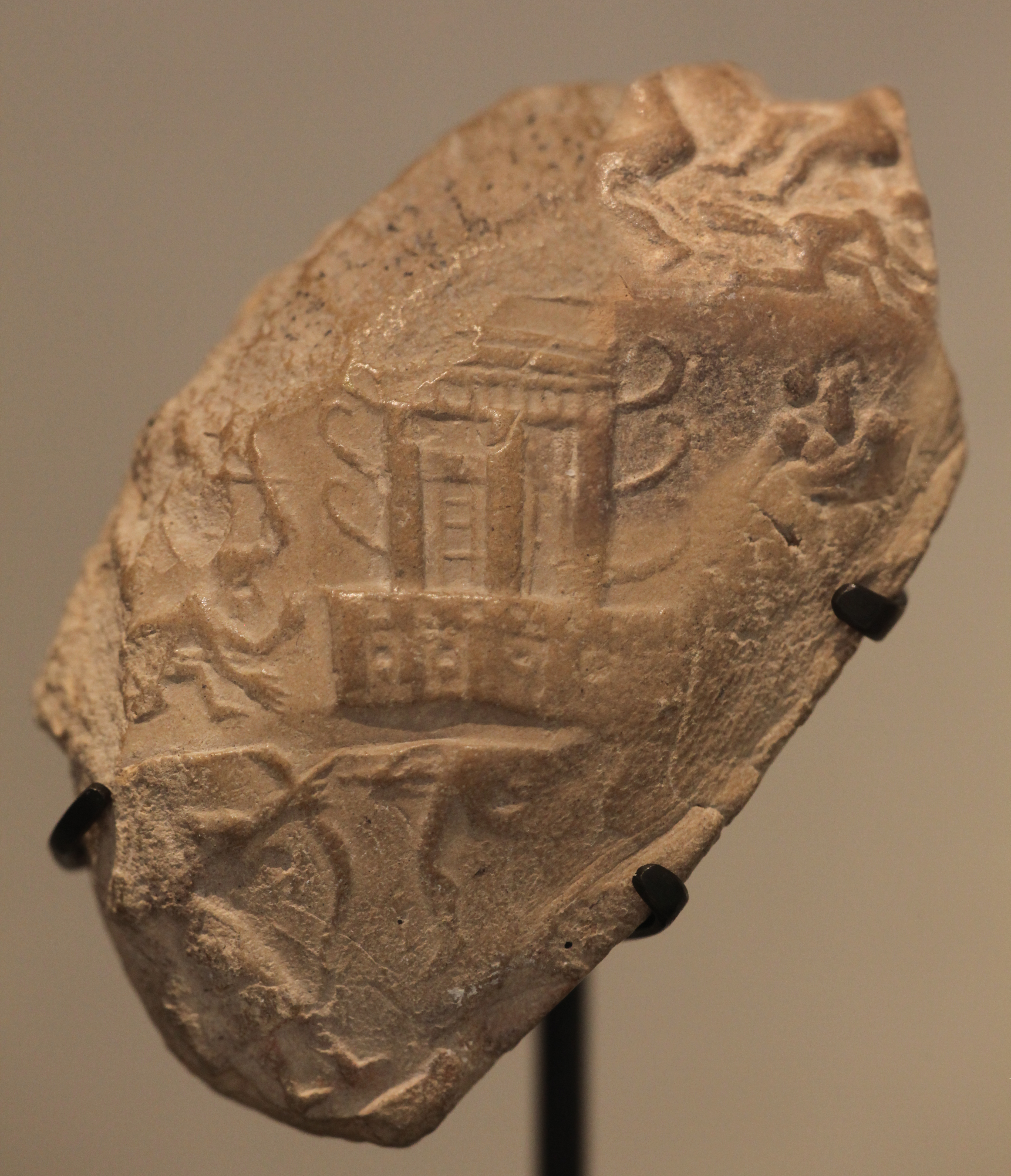 King-priest with bow fighting enemies, with horned temple (composite of several imprints of the same cylinder seal). Uruk period [1]